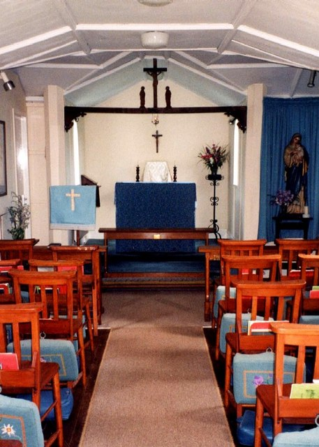 Church of Our Lady and St Anne (interior) Interior view of this tiny church, originally an oratory for the Kingdon brothers